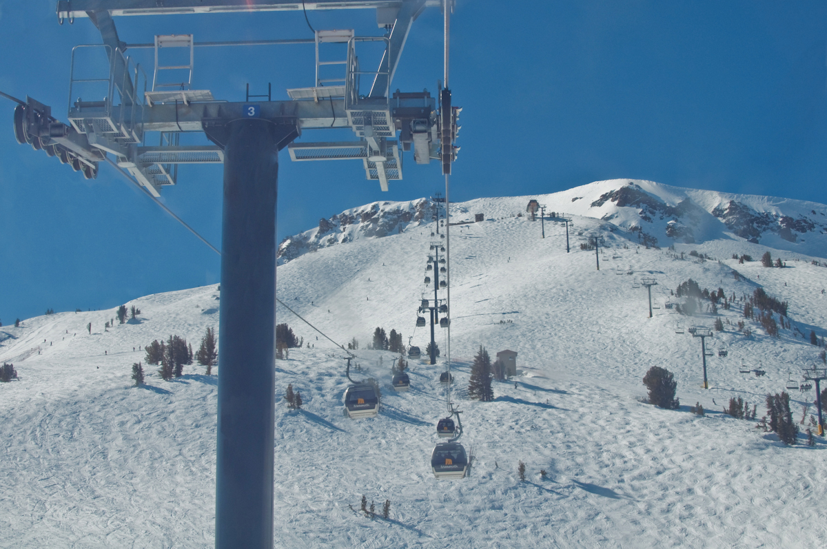 The gondola to the peak of Mammoth Mountain, California